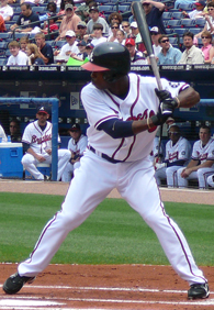 Picture I took of Willie Harris on 6-5-07 23:13, 7 June 2007 . . Chrisjnelson . . 195×282 (122,549 bytes)